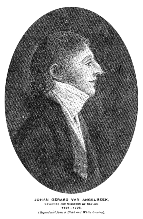 From: Journal of the Dutch Burgher Union of Ceylon, 1916 (volume 9, part 1, page 1)